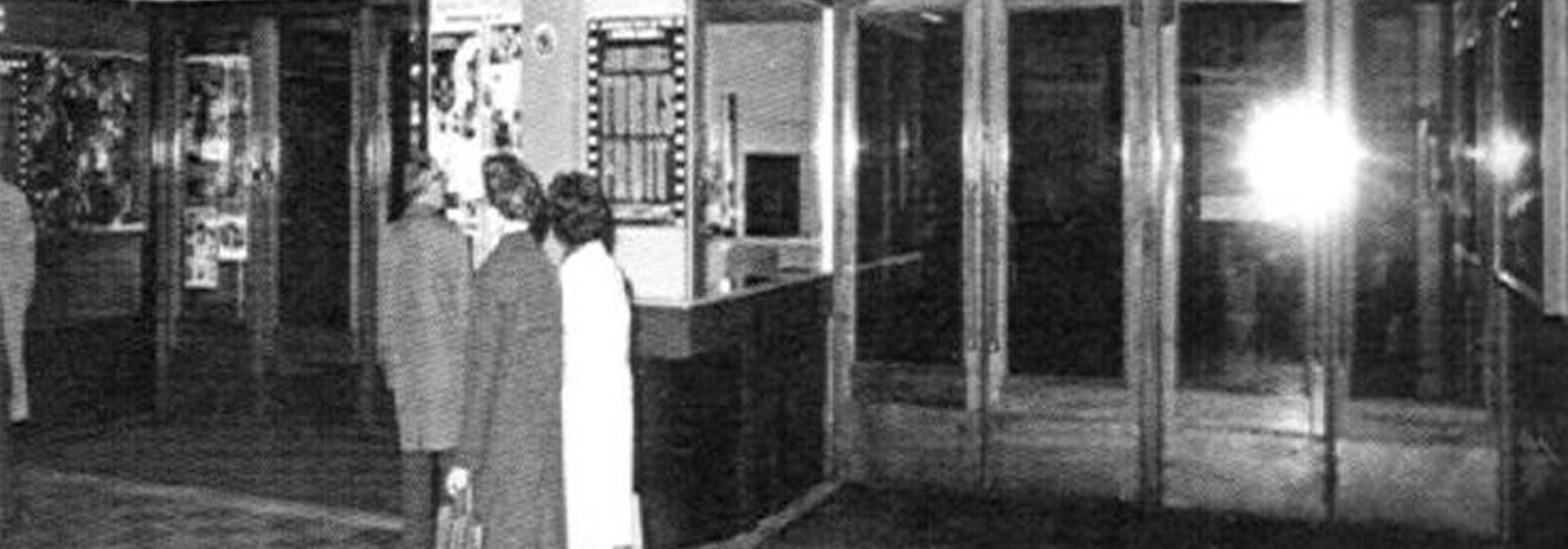 De ingang van het oude Passage Theater